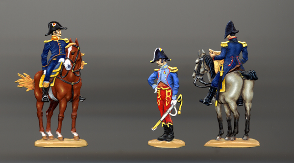 30mm flat tin figures, Napoleonic wars, drawing Hans Fritsch, engraving Ludwig Frank, edition H.J.Thiel, painting Louis Liljedahl